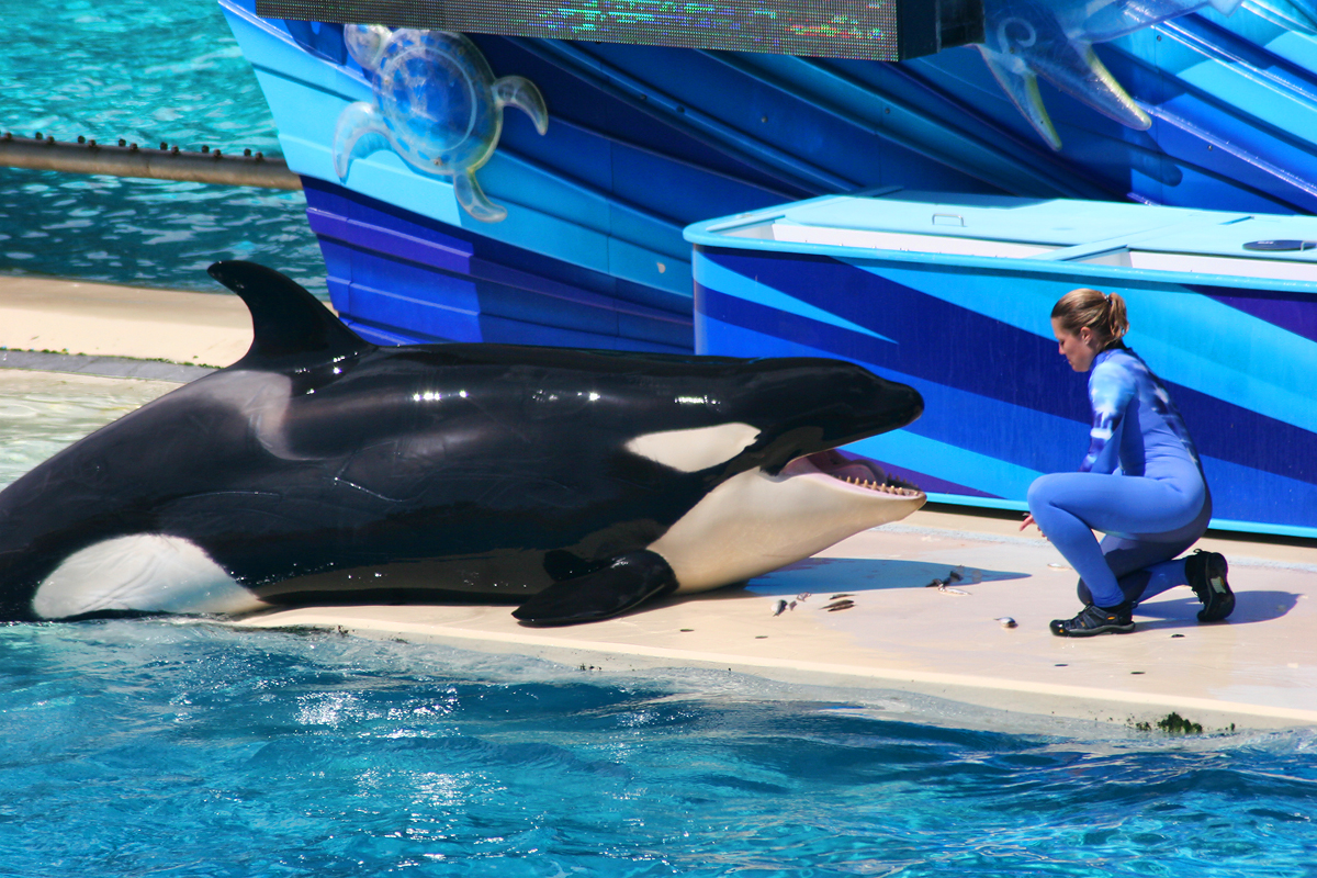 One Ocean (Shamu Stadium): A Shamu show that features the park's killer whales and their trainers. SeaWorld San Diego Theme Park